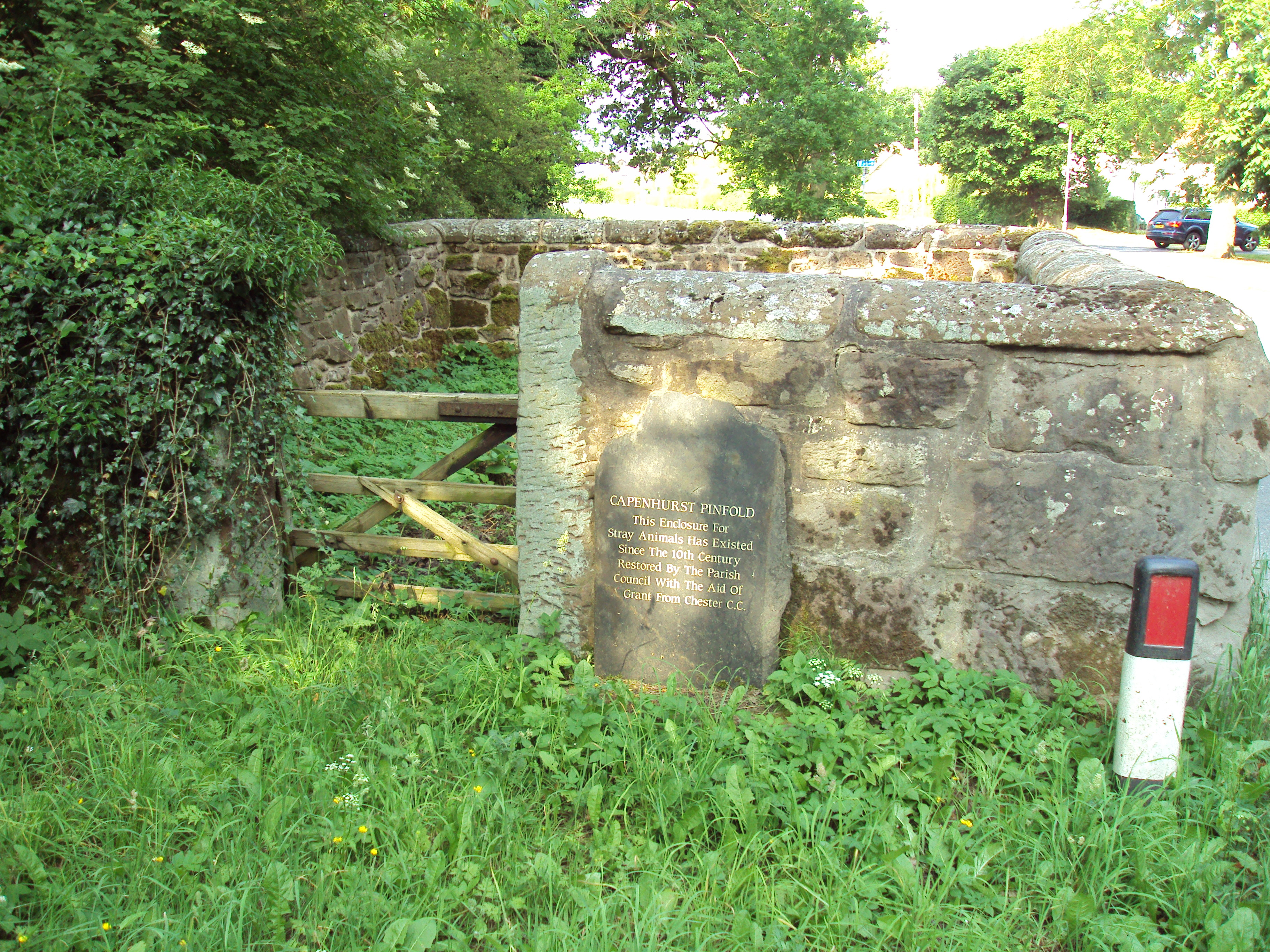 Capenhurst Pinfold, an enclosure for stray animals, historically dating back to the 10th century AD, Capenhurst Lane, Capenhurst, Cheshire, England.